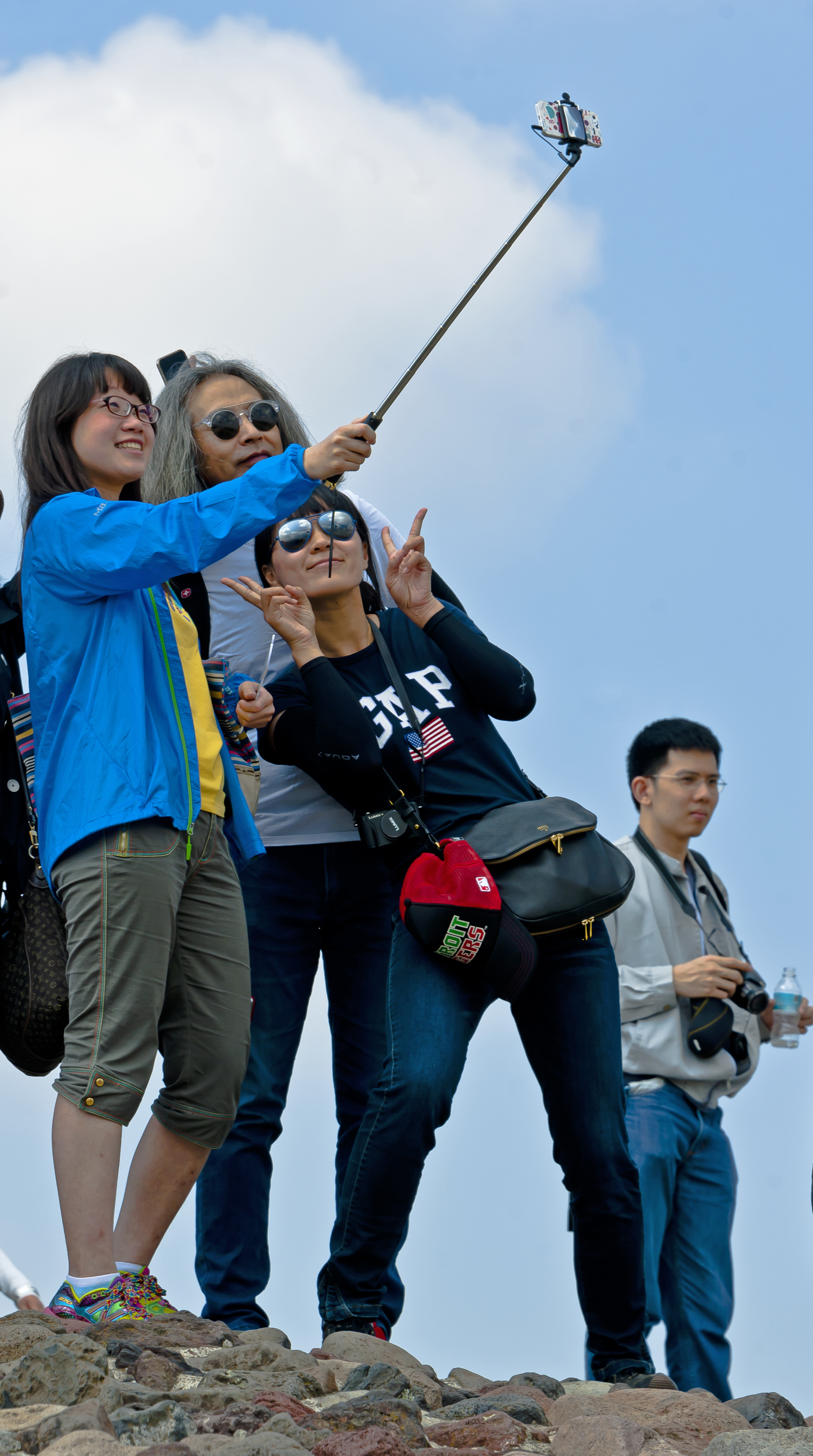 Three visitors to Teotihuacan taking their picture with a selfie stick at the top of Pirámide del Sol